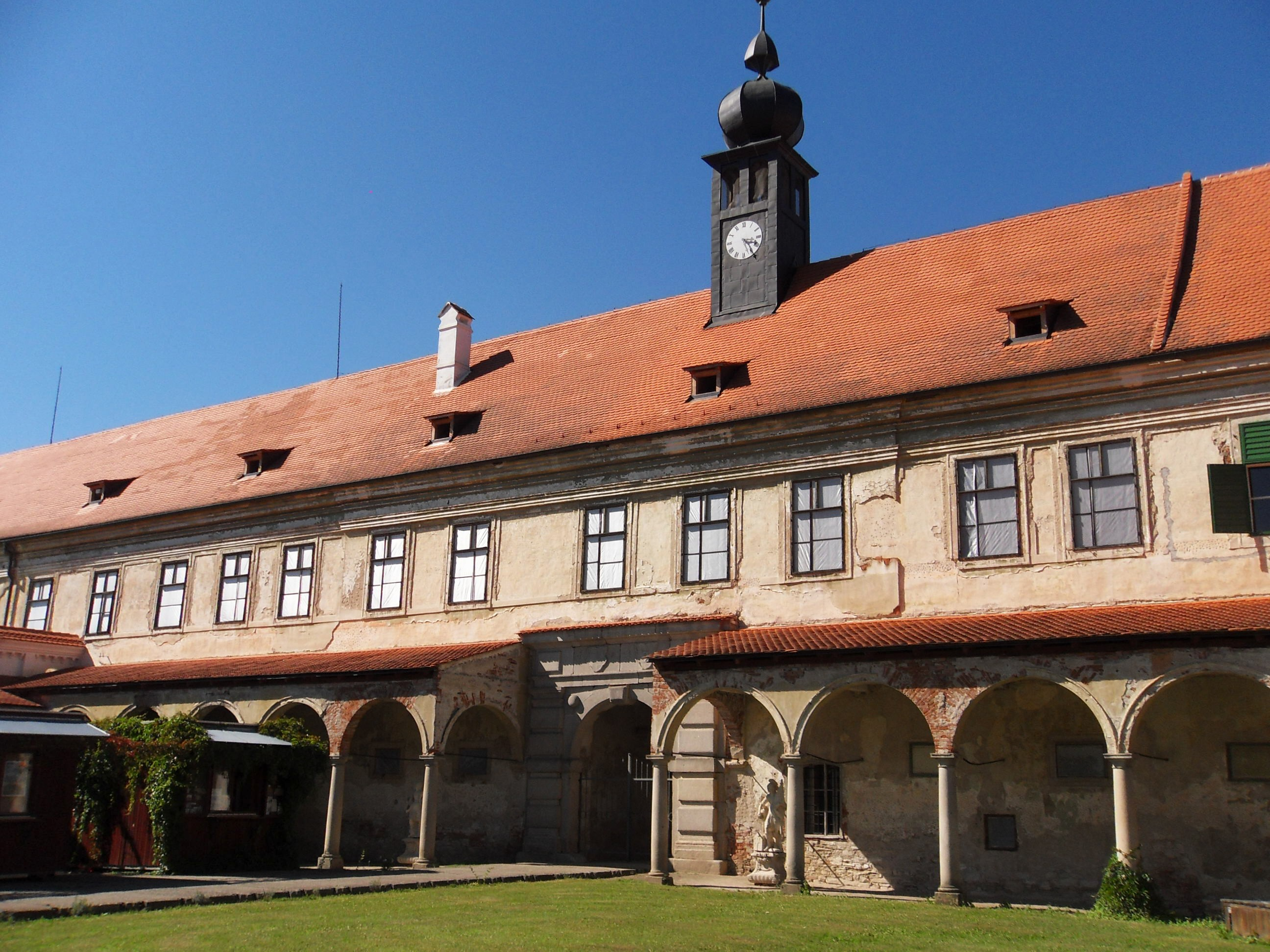 Uherčice castle, Znojmo district, Czech Republic